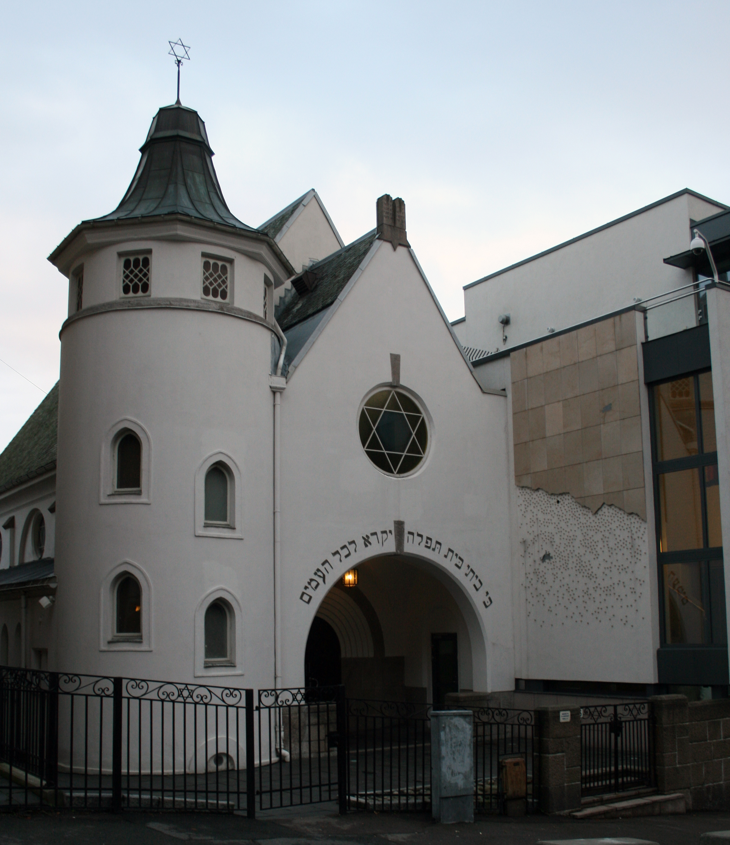 The Synagogue in Oslo, Norway. Architect Herman Herzog. Built 1918; inaugurated 1920. Text above entrance: "This shall be a house of prayer for all people."